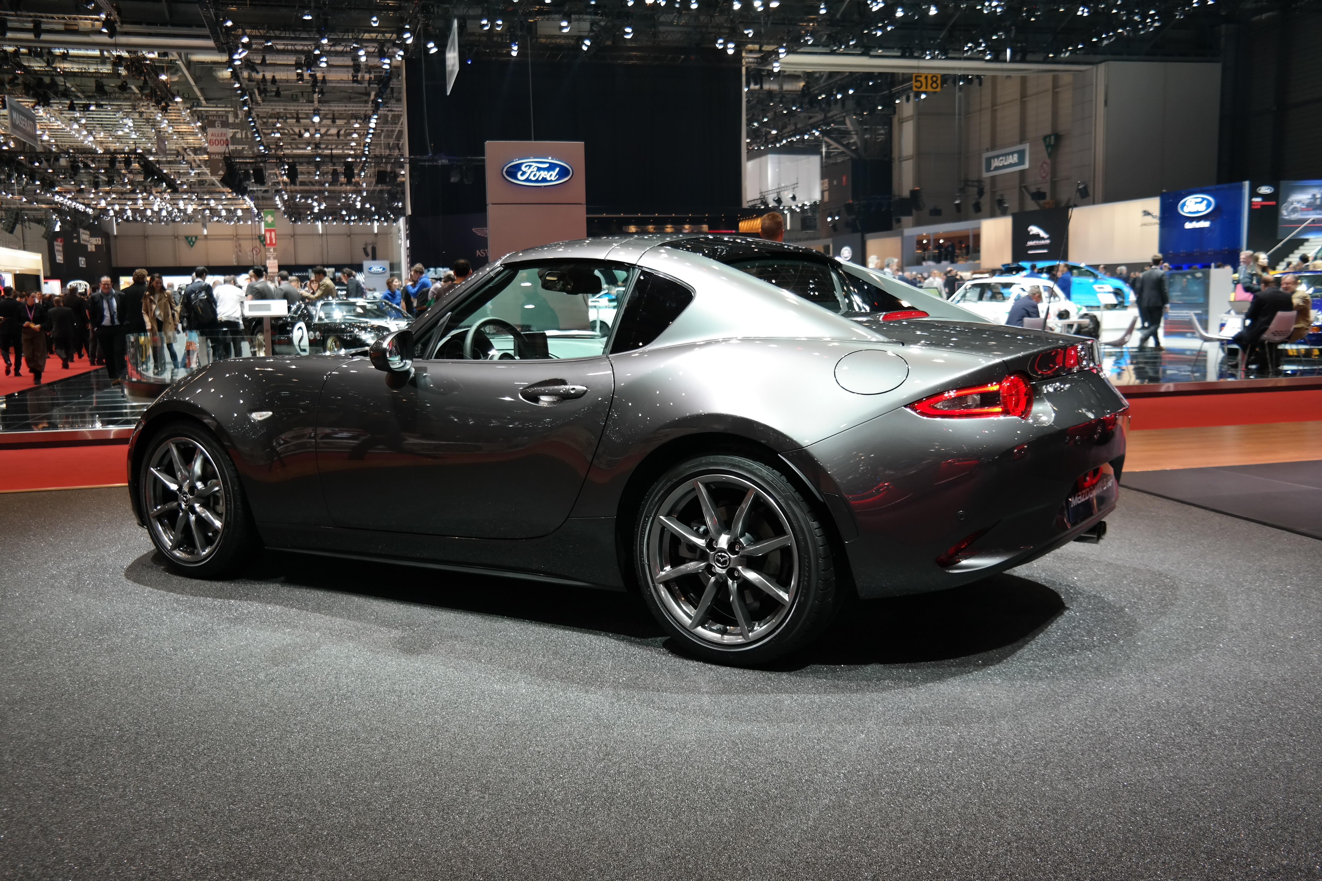 Geneva Motor Show 2017 (photo taken on the first press day)